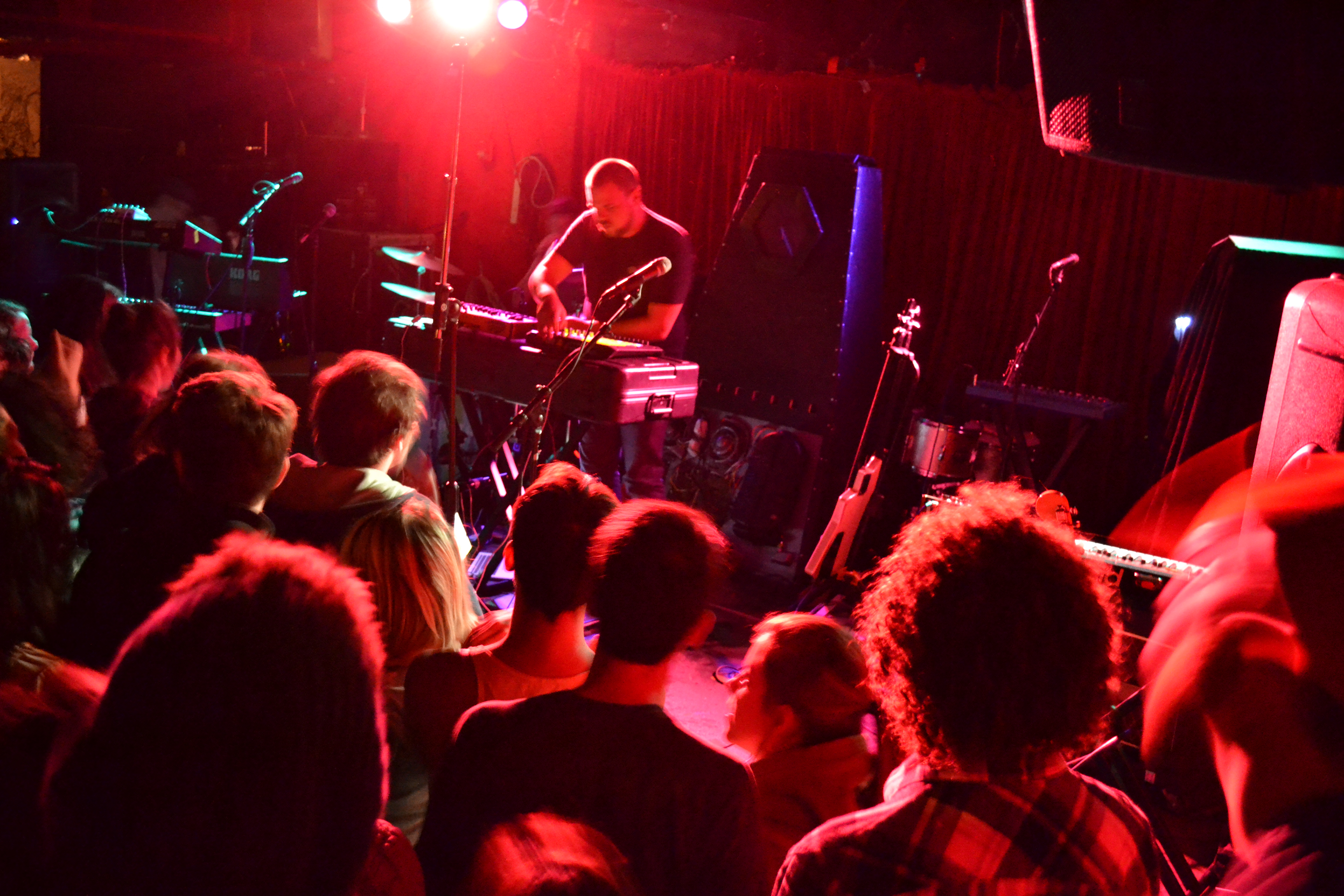 Com Truise opening for Neon Indian at the Grog Shop in Cleveland Heights, OH